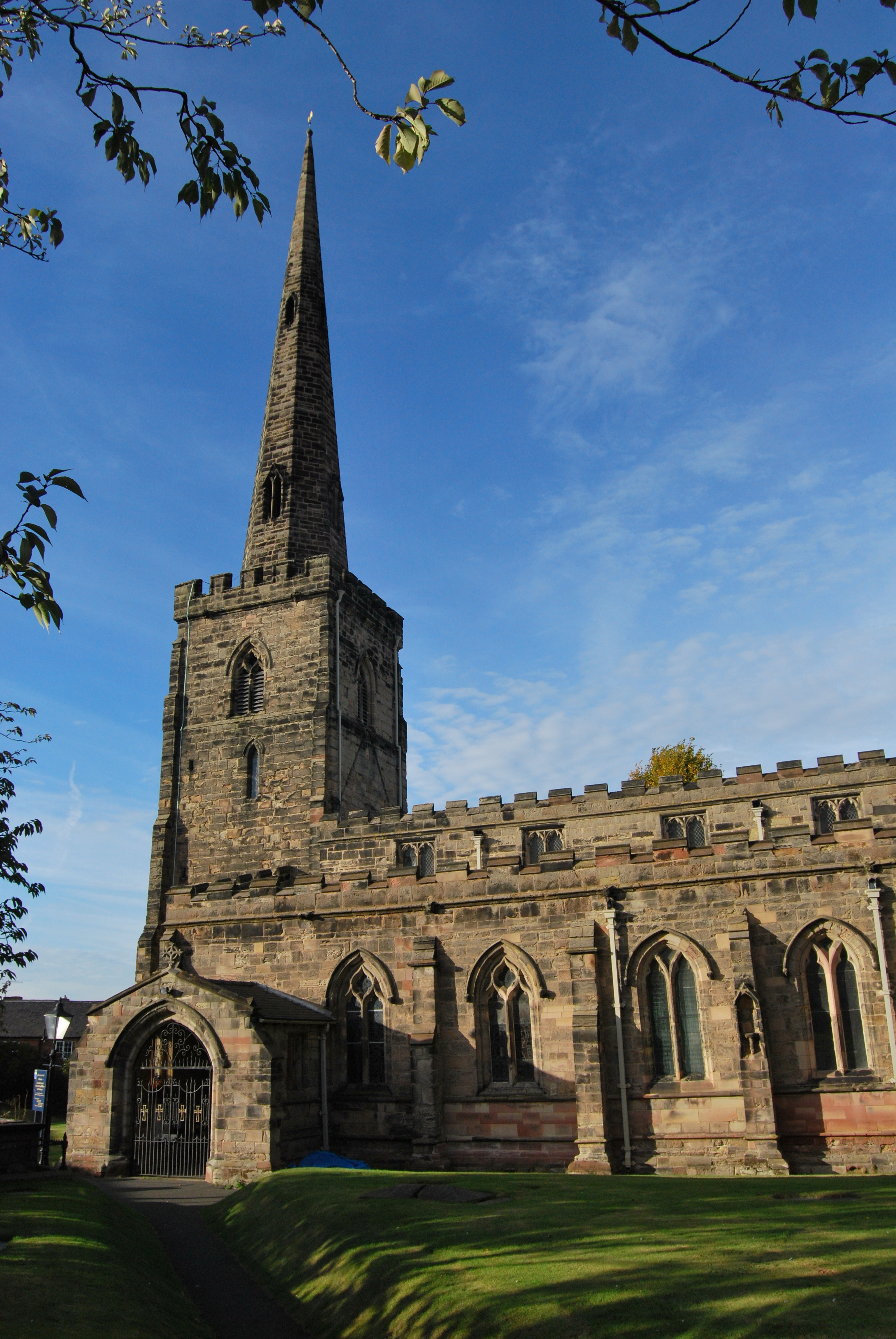 Nave, south porch, west tower and spire of the parish church of St Edward King and Martyr, Castle Donington, Leicestershire, seen from the south